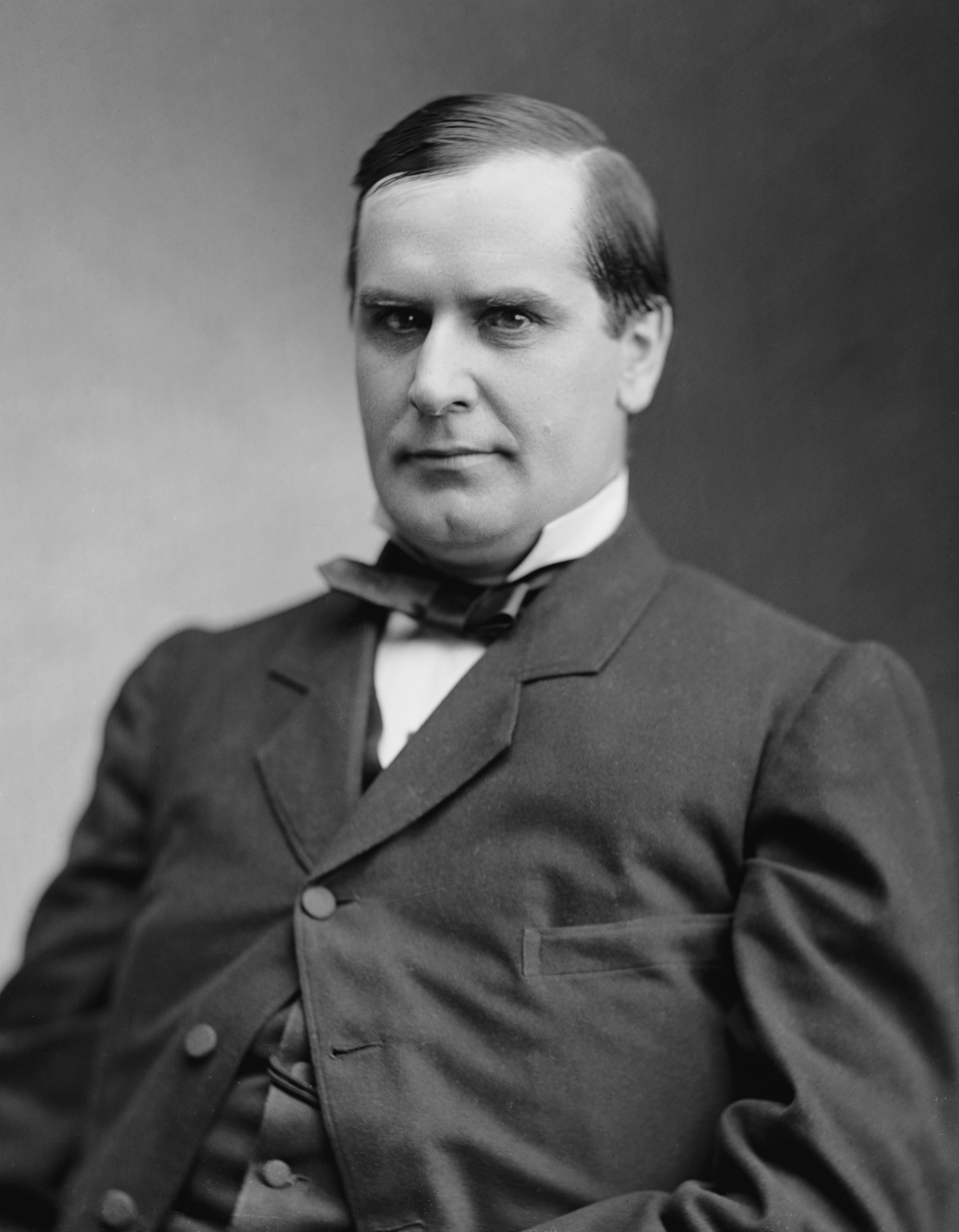 William McKinley. seated facing left